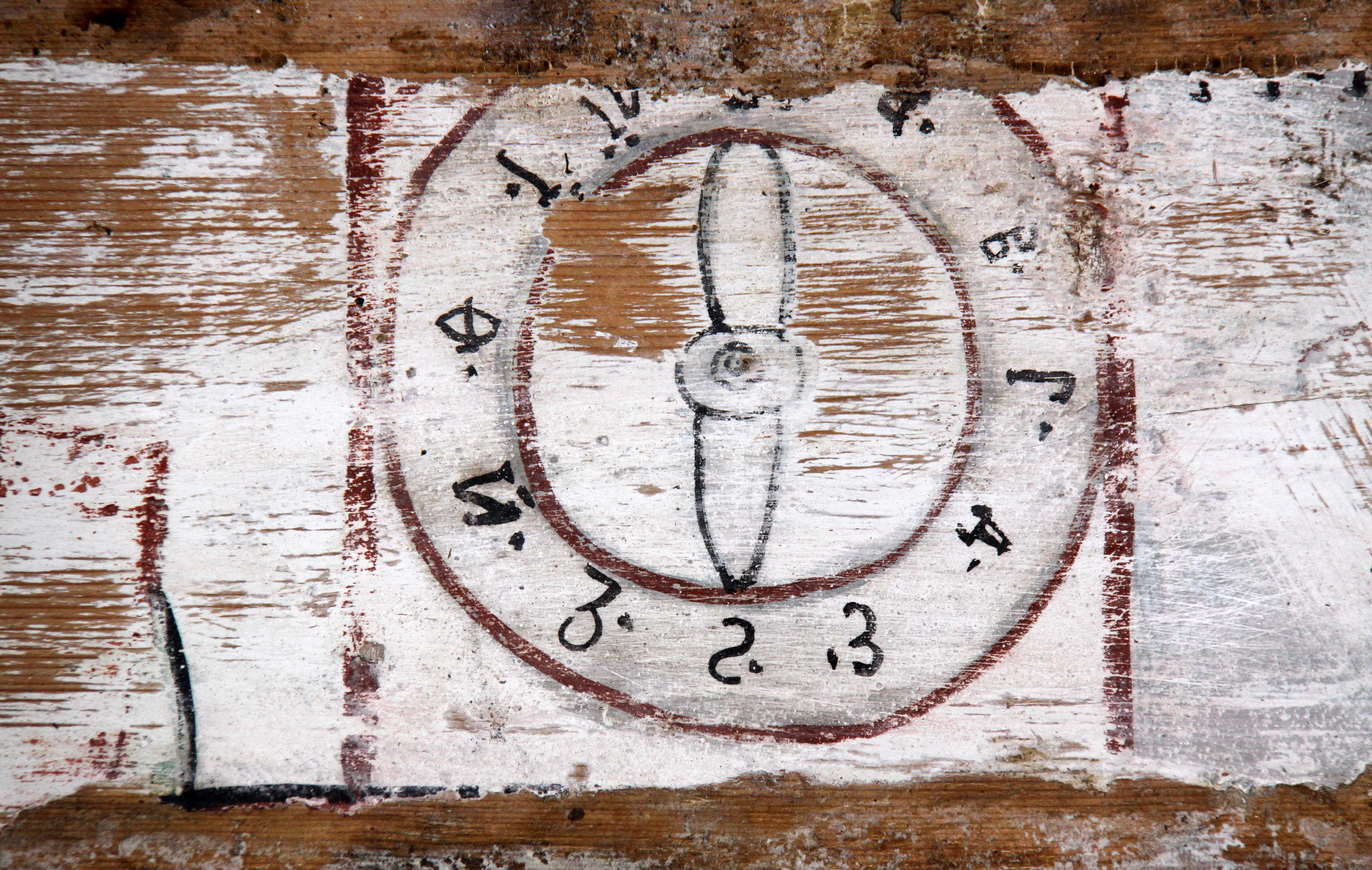 Petrindu, Sălaj: wooden church in The Ethnographic Museum in Cluj Napoca, Romania. Painted clock with cyrillic numbers, painted 1835 by Dimitrie Ispas.